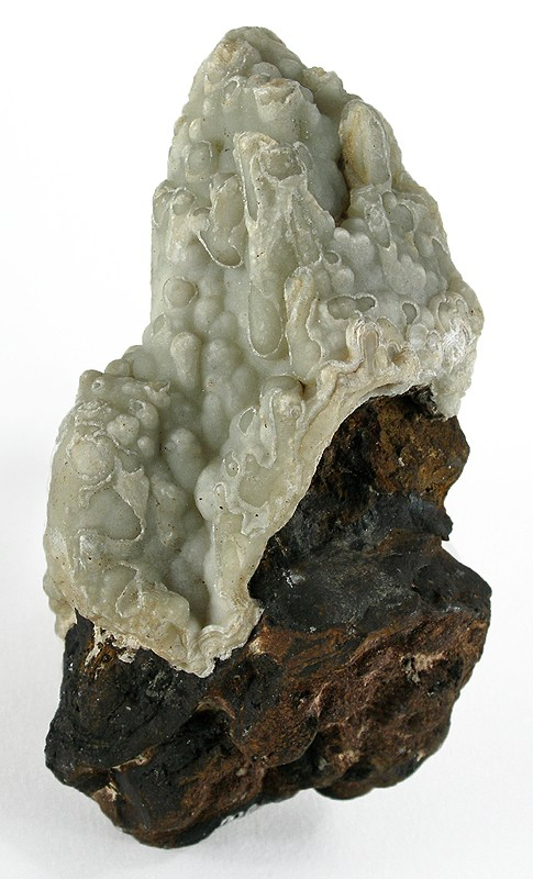 Gibbsite Locality: Richmond, Berkshire County, Massachusetts, USA (Locality at ) Size: small cabinet, 8.9 x 4.8 x 3.9 cm Gibbsite From the TYPE LOCALITY where it was first noted in 1822 , this is an large and OUTSTANDING, aesthetic, drapery of the rare aluminum-containing species gibbsite upon host matrix. It was named after Colonel George Gibbs (1777-1834), original owner of the Gibbs mineral collection acquired by Yale University early in the nineteenth century (again, according to MINDAT). Gibbsite is an interesting aluminum hydroxide with very little heft to it, that otherwise tends to look like heavy smithsonite or hemimorphite at first glance. This specimen has a label IN HIS OWN HAND, from the famous collection of Charles Shephard. ex.Charles Shepherd Collection (1804-1886), whom according to the Mineralogical Record Archive on him was with Benjamin Silliman's staff at Yale in 1827, as his assistant, and later as a lecturer on natural history at Yale (1830-1847) and then Amherst College. His large collection was donated to the Smithsonian, but afew specimens apparently found their way into the Academy collection, perhaps through trades with colleagues in the Philadelphia area.